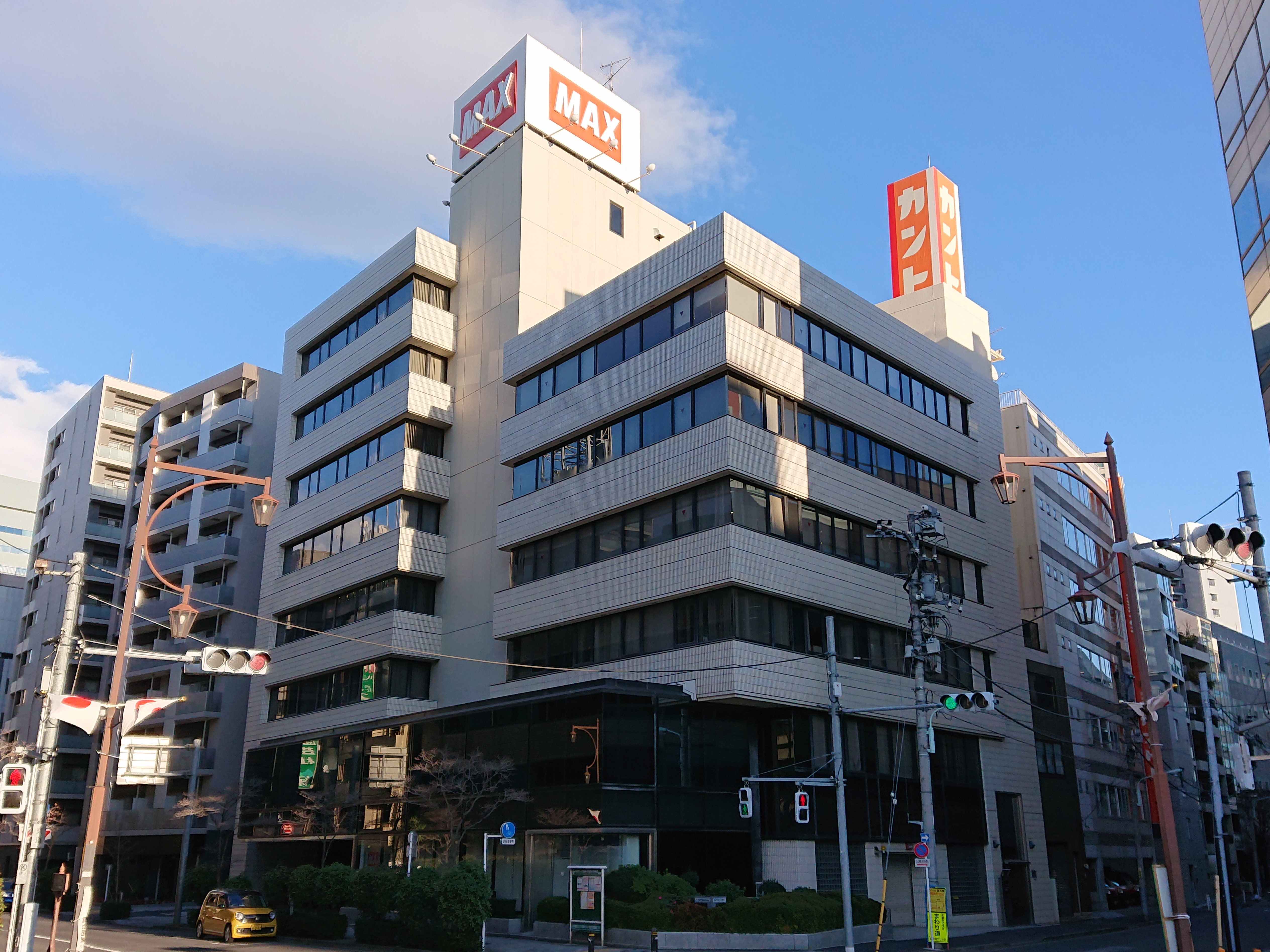 MAX Co., Ltd. (マックス株式会社), located at 6-6 Nihonbashi-Hakozakicho, Chuo, Tokyo, Japan